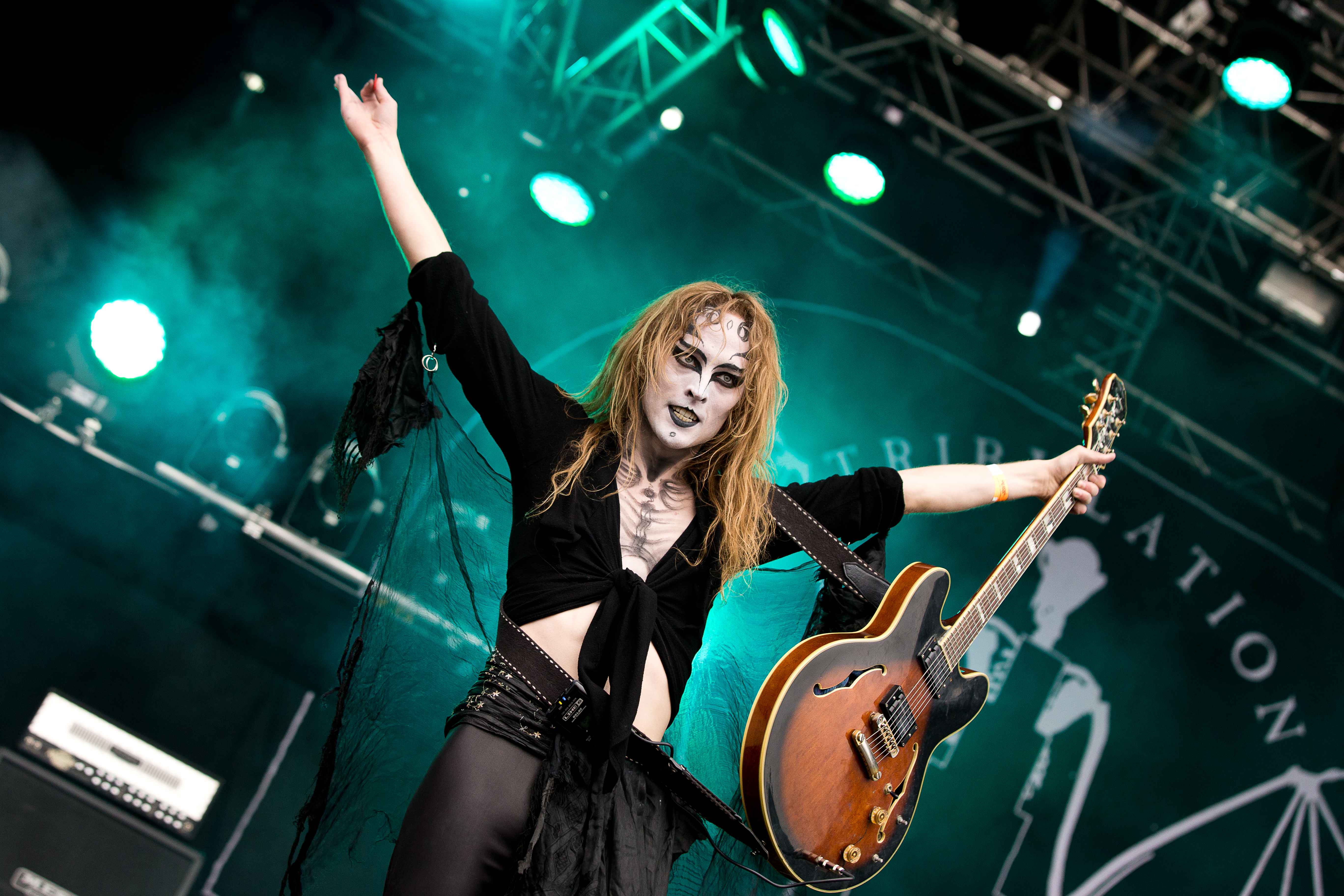 The Swedish death metal band Tribulation at the Party.San Metal Open Air 2016 in Obermehler-Schlotheim/Germany